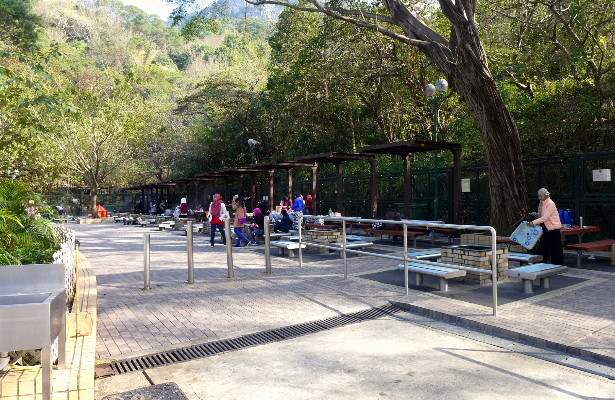 Lion Rock Park Barbecue Area